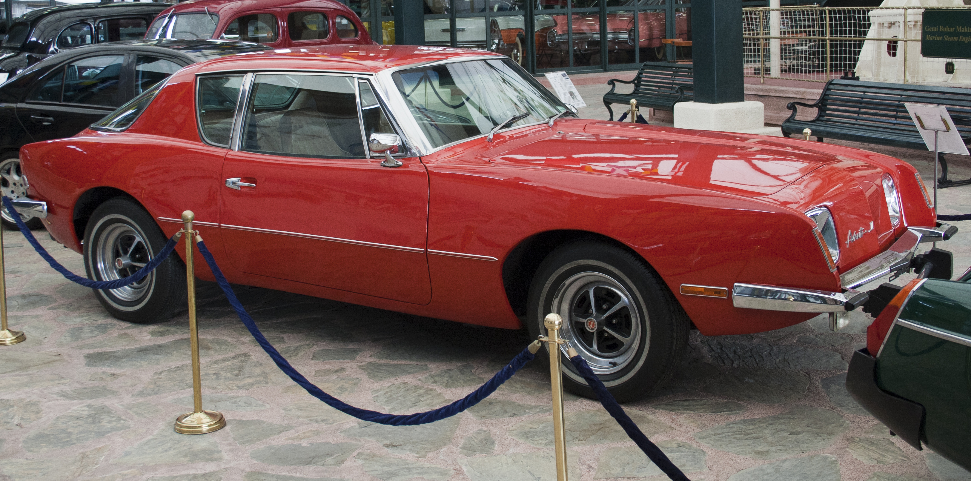 A 1976 Avanti II at the Rahmi M. Koç Museum of Transportation. 350 Chevrolet engine.